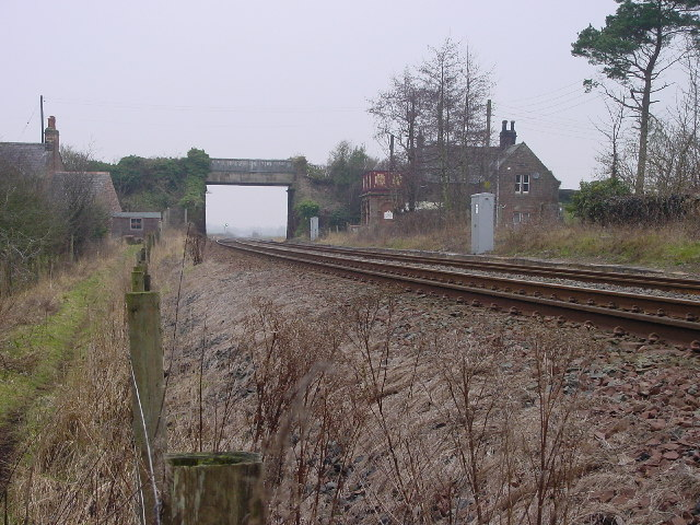 Curthwaite Railway Station. Disused station, active line. On the right is a water tank which is a listed building.